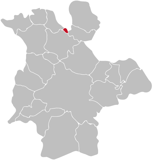 Location of the district Dillnhütten within Siegen, Germany. Red/Grey colors match the color scheme of Germany maps and information boxes in German Wikipedia. District is highlighted in red.